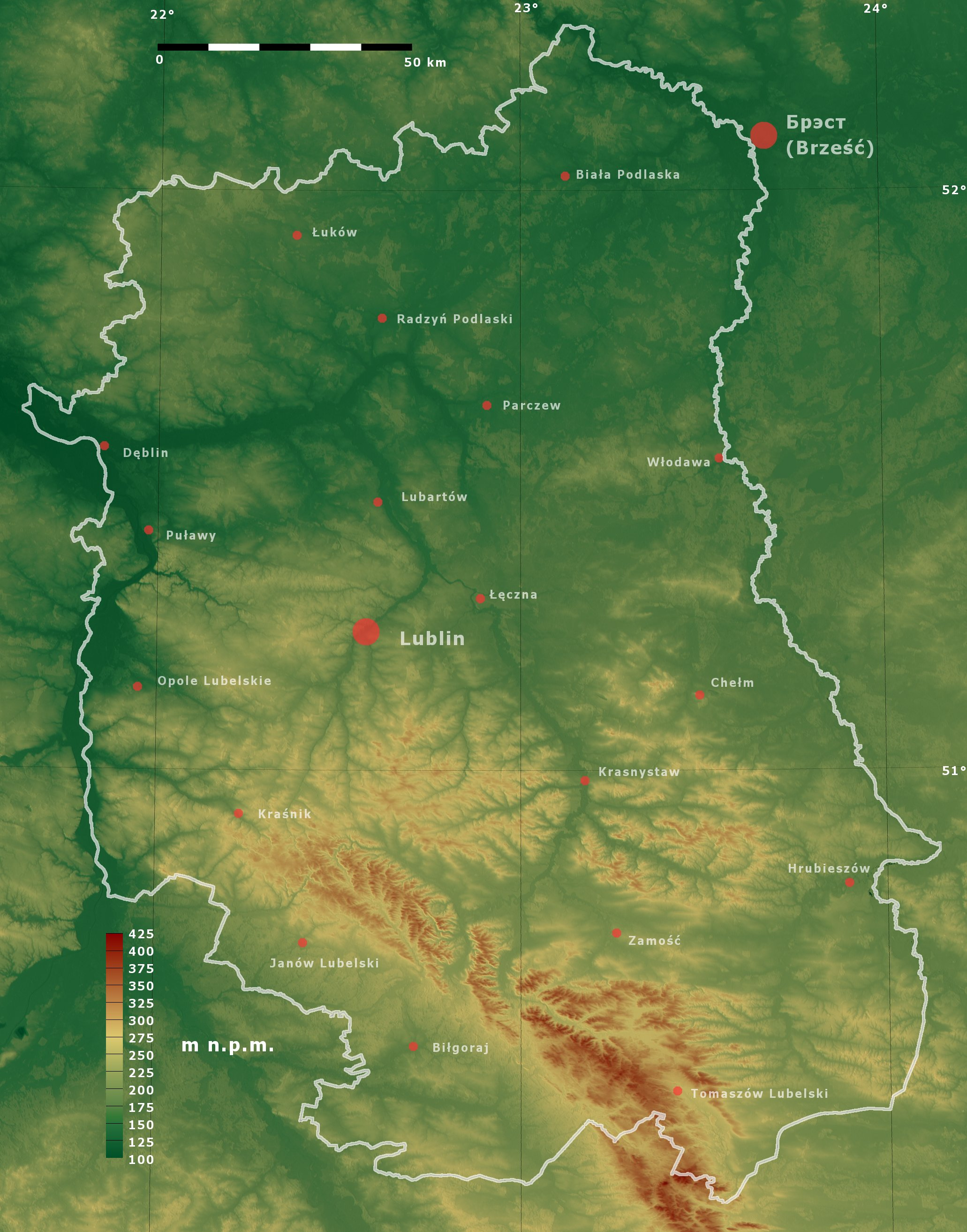 Map created with 3DEM from SRTM ( Administrative boundaries from OpenStreetMap.